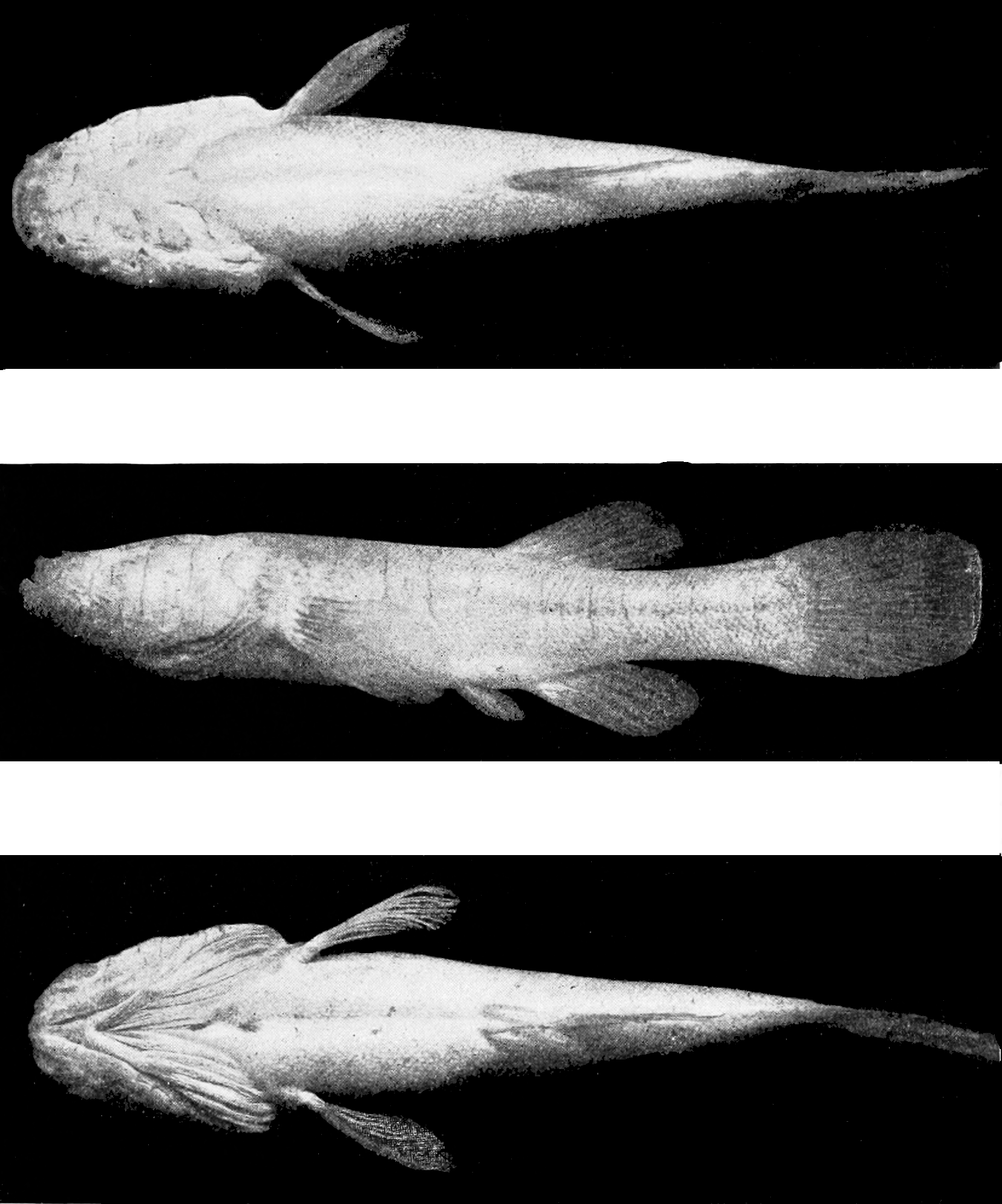 Three views of amblyopsys